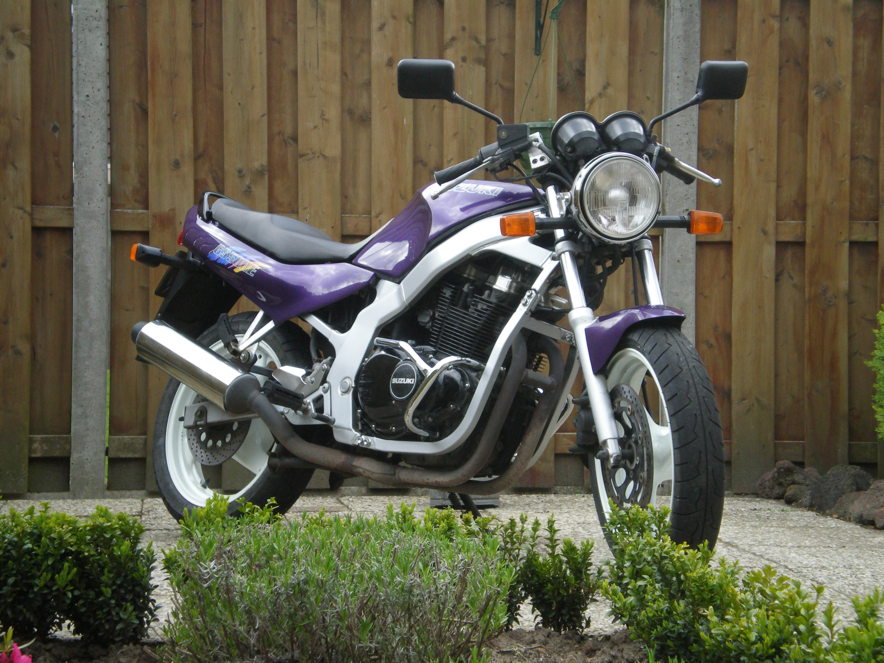 Picture of a Suzuki Gs 500e from 1995